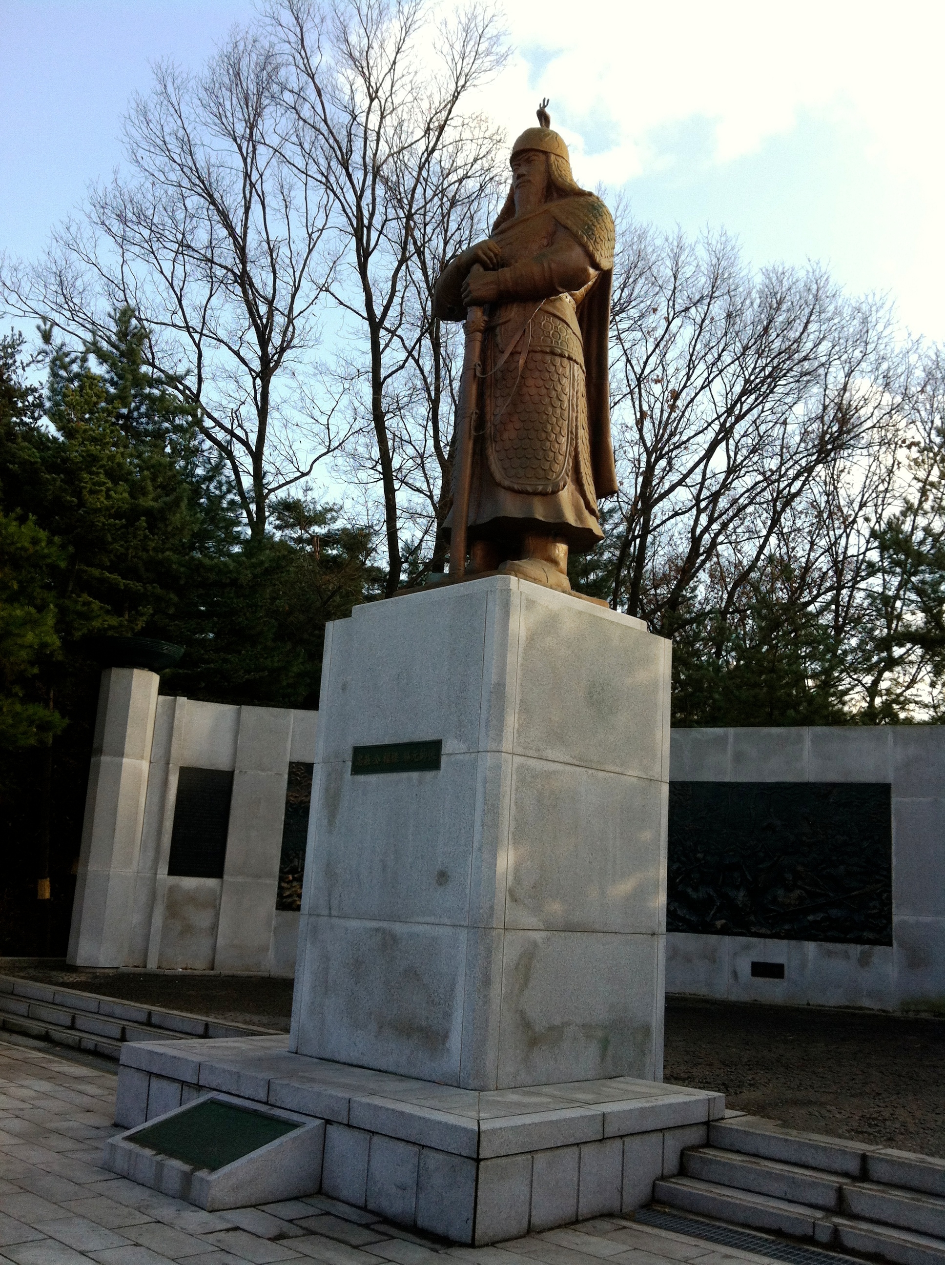 The statue of Kwon Yul, General of Joseon Dynasty, 16th Century